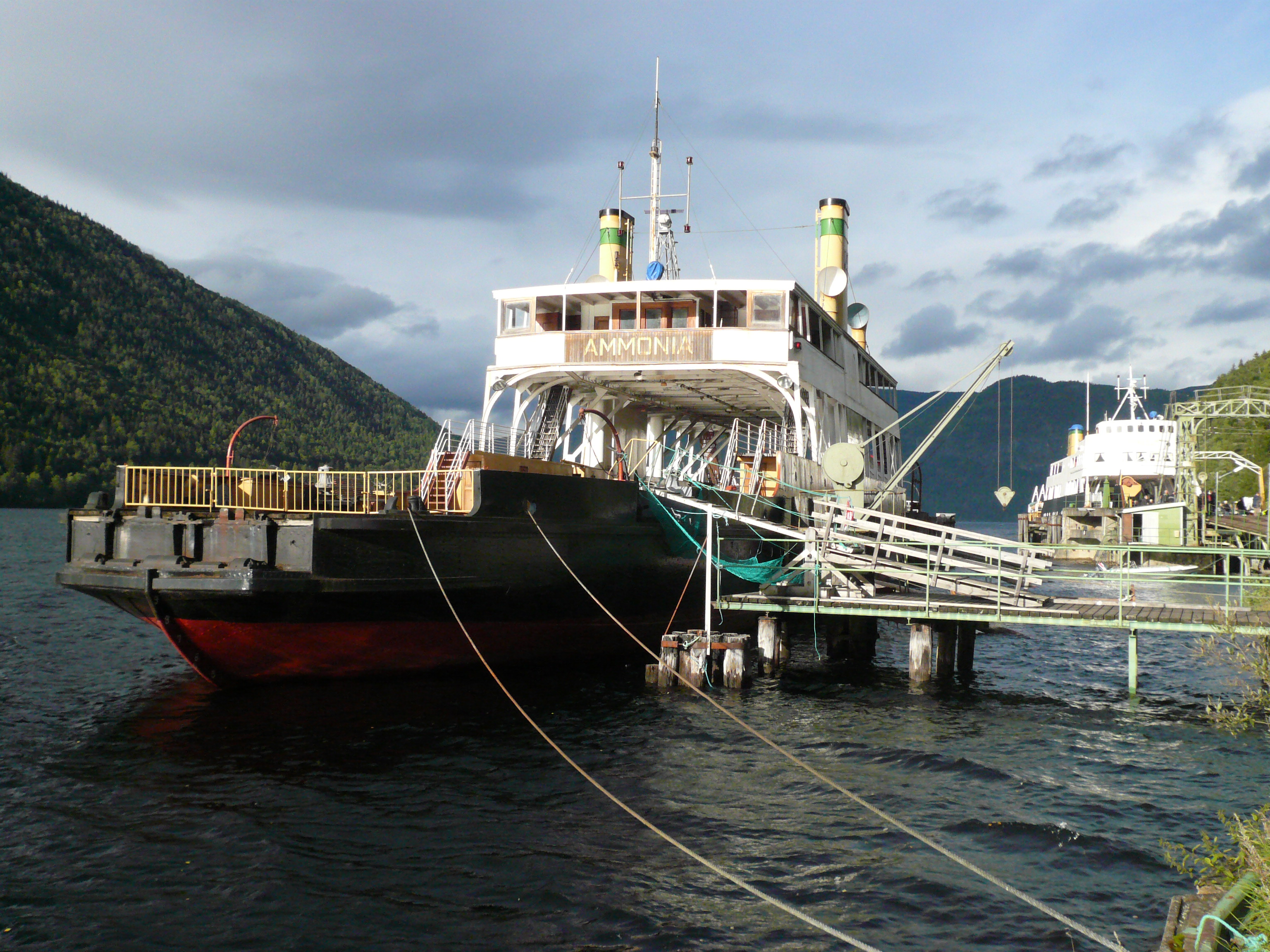 Ammonia